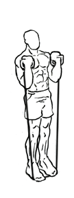 an exercise of calves